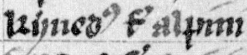 An excerpt from folio 30v of Lat. 4126 (the Chronicle of the Kings of Alba). The excerpt refers to Cináed mac Ailpín, King of the Picts (died 858). A transcription of this excerpt appears on page 131 of: Skene, WF, ed. (1867). Chronicles of the Picts, Chronicles of the Scots, and Other Early Memorials of Scottish History. Edinburgh: H.M. General Register House. The transcription reads "Kynedus filius Alpini".